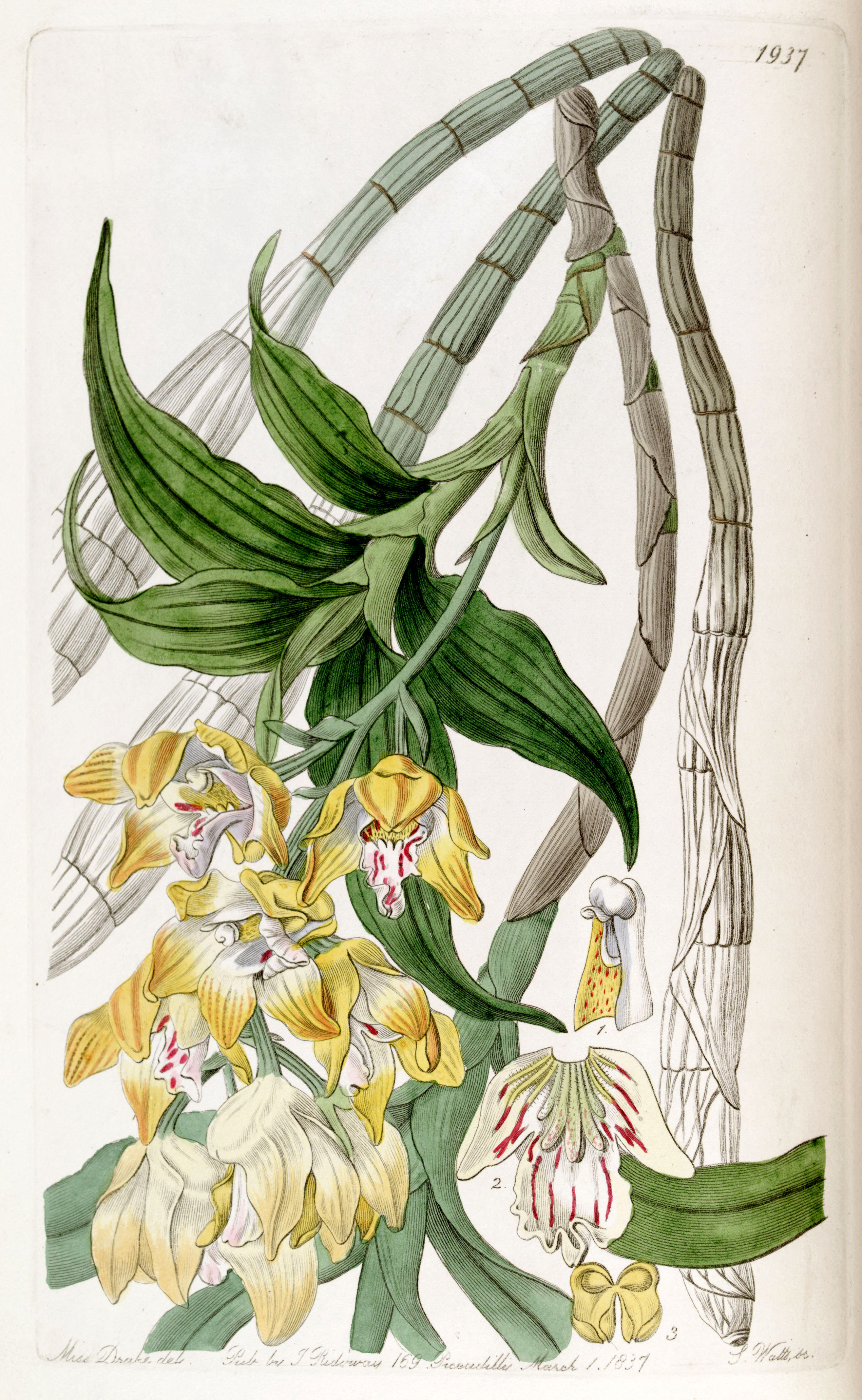 Chysis aurea